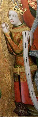 Fragment of votive picture of Archbishop John Ocko of Vlasim.